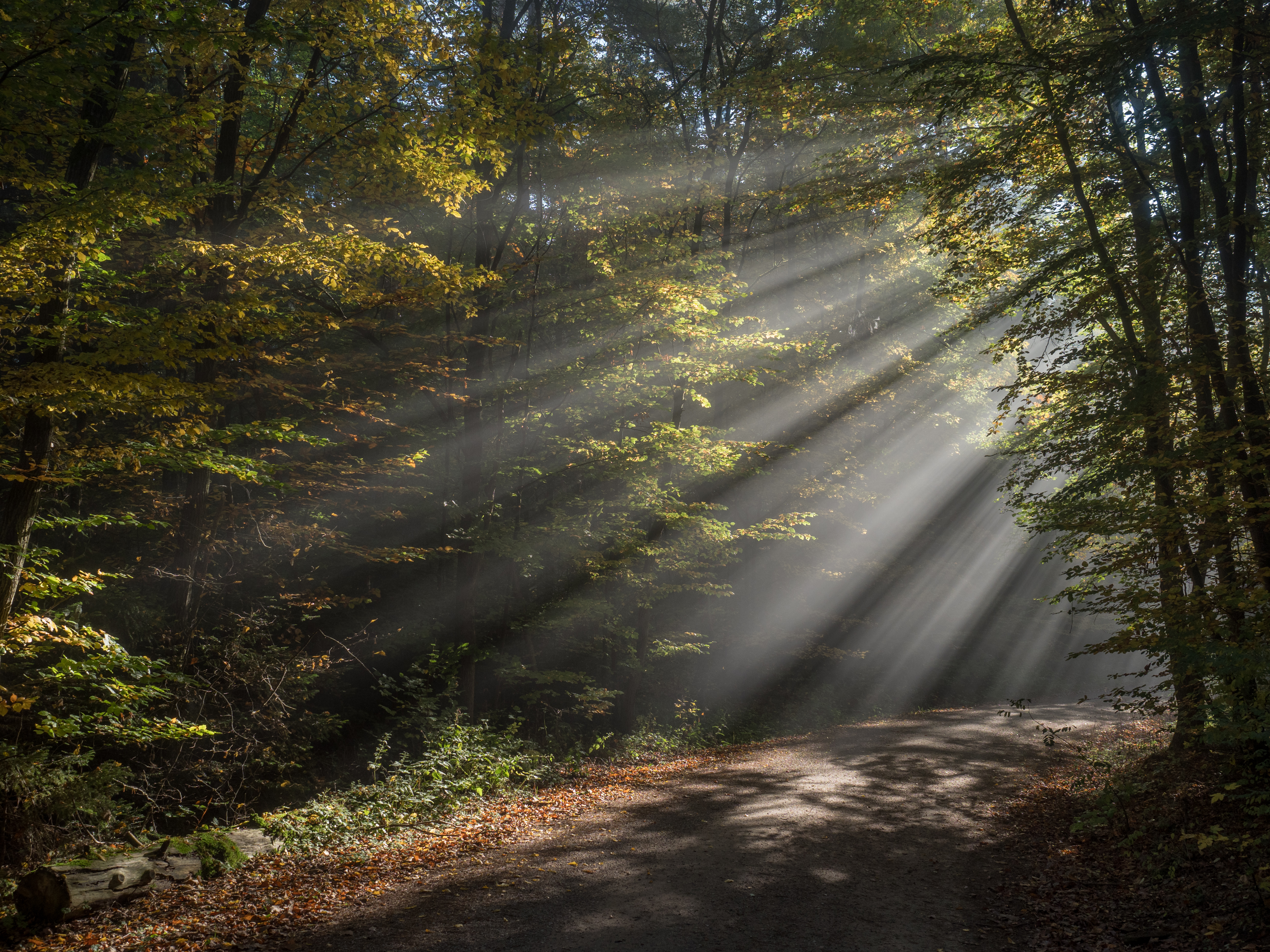 Sunrays in the Bruderwald, Bamberg, Bavaria